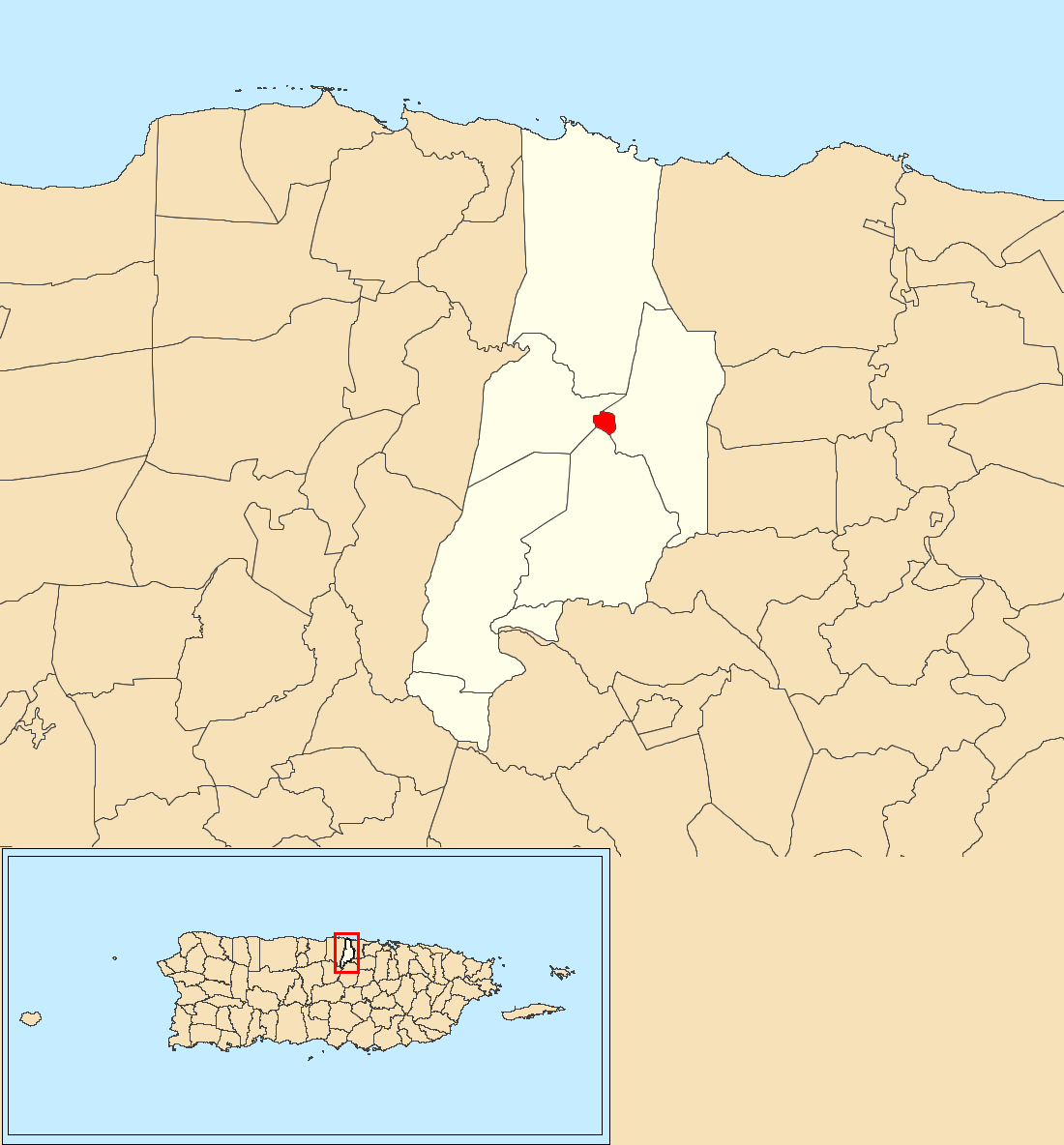 Vega Alta barrio-pueblo, Puerto Rico locator map